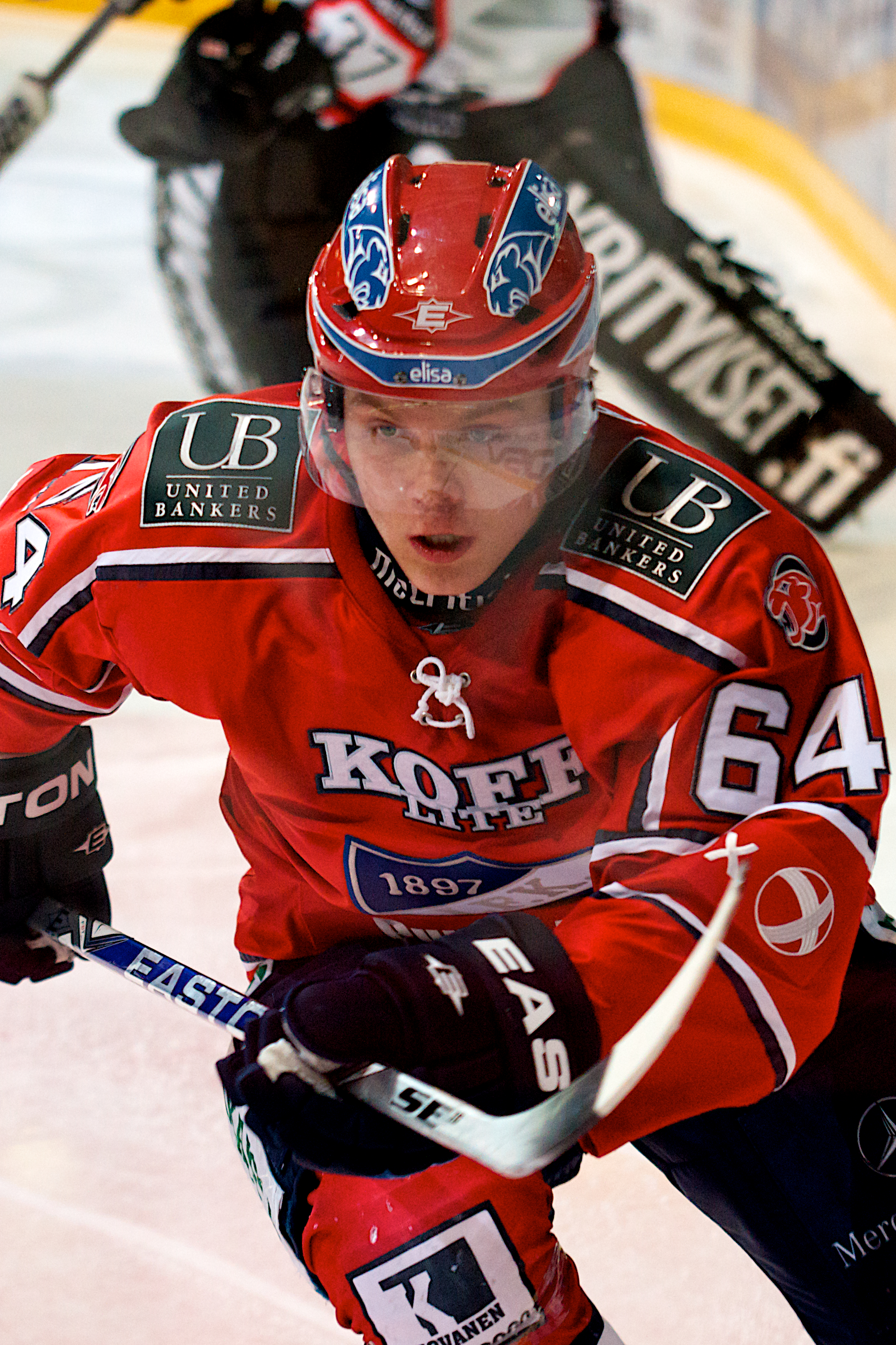 Finnish hockey player Mikael Granlund (64) during HIFK game.